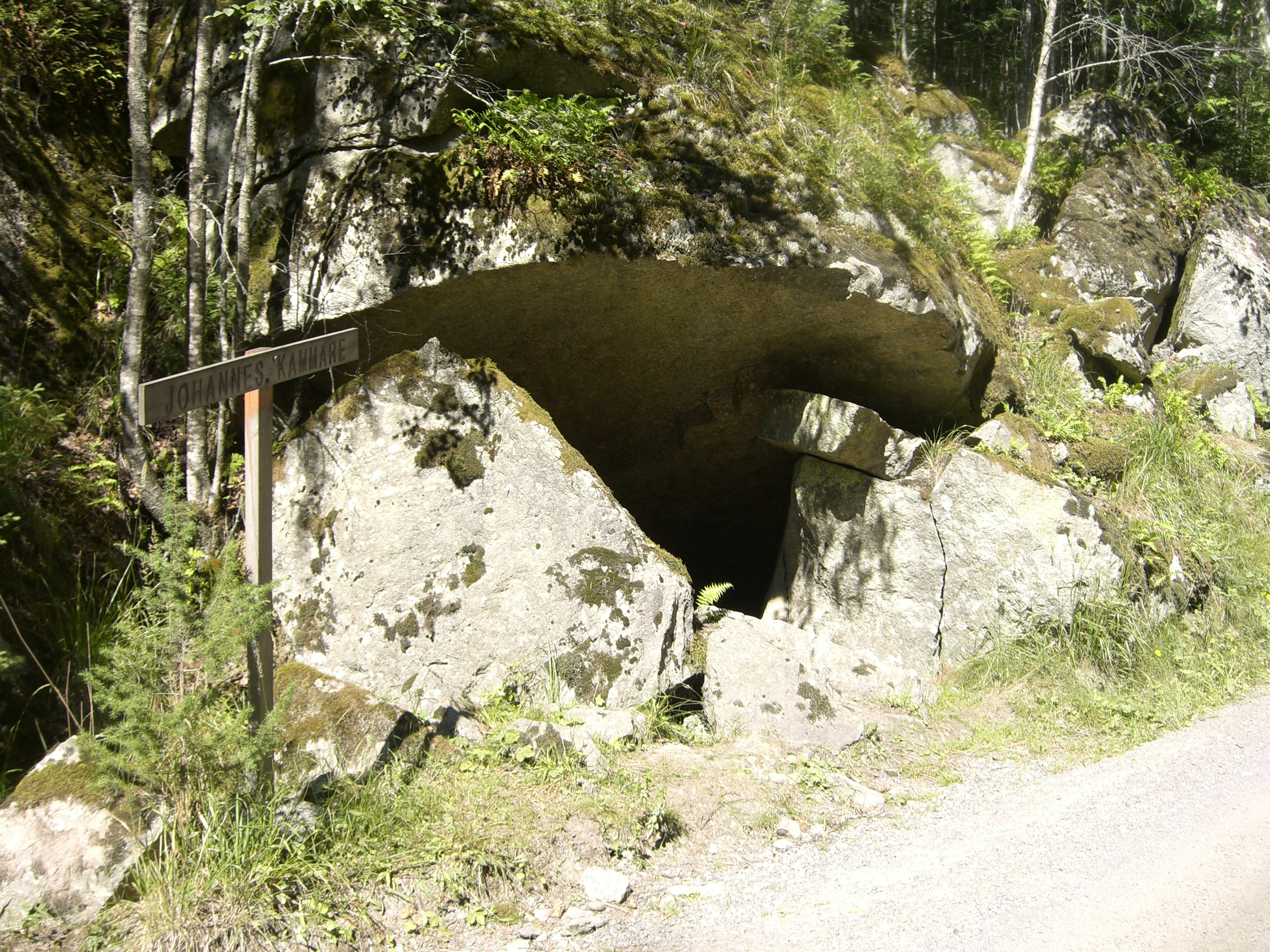 The cave Johannes kammare ("Johannes's chamber") in the forrest of Tiveden, Sweden